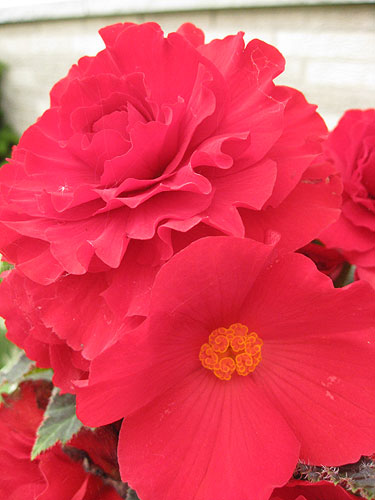 A closeup of begonia blossoms, showing the dual, male and female blossoms.